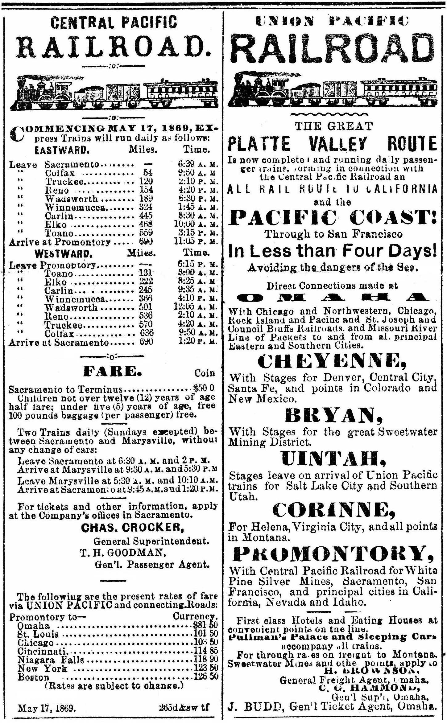 Central Pacific Railroad & Union Pacific Railroad display advertisements carried in The Salt Lake Daily Telegraph the week that two lines' rails were joined at Promontory Summit, Utah, on May 10, 1869.